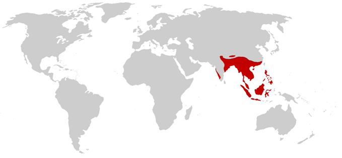 Map showing the distribution of the King Cobra (Ophiophagus hannah) in red.